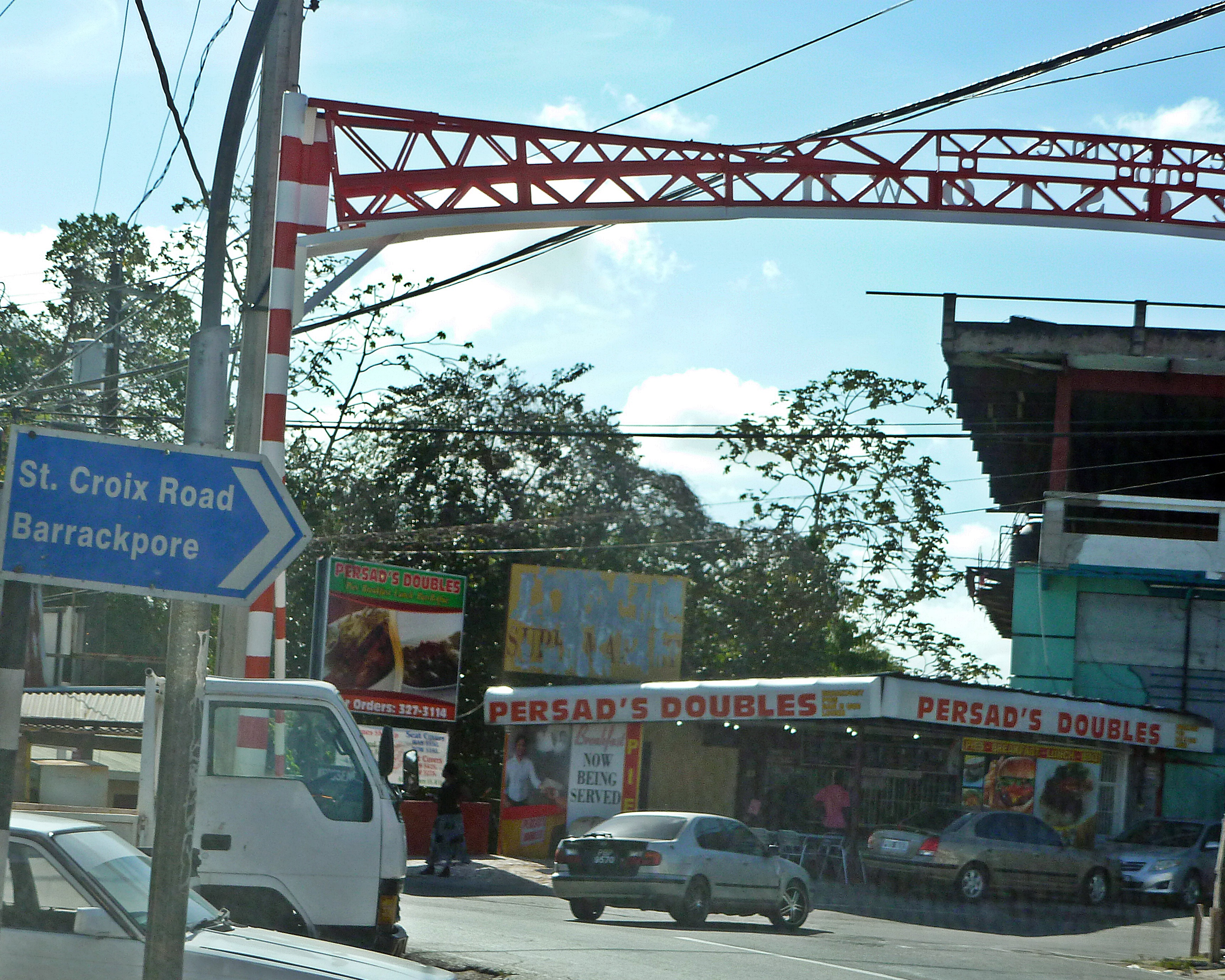 The birthplace of the original doubles from the Deen family.